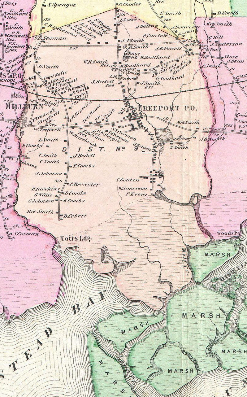 Freeport, New York, 1873. Extracted from Fredrick W. Beers’ map of the southern part of Hempstead, Long Island, New York, published in 1873.